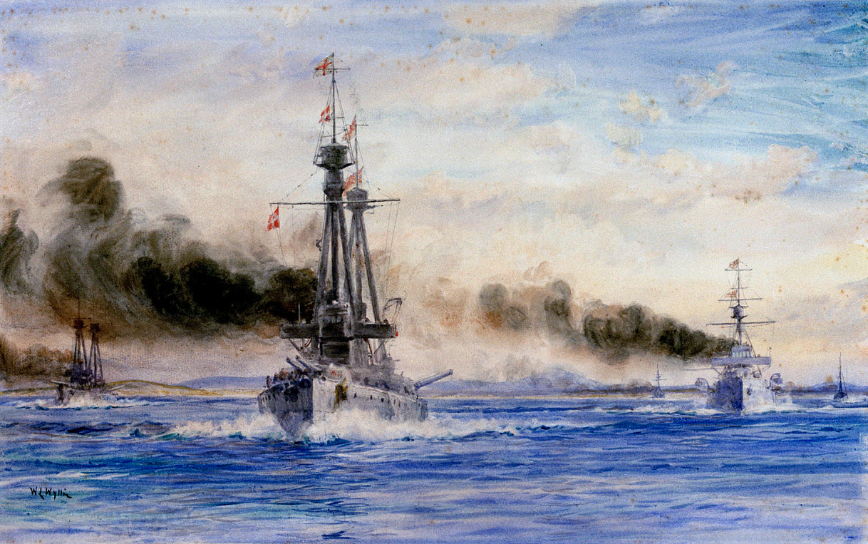 'Invincible and Inflexible steaming out of Port Stanley in Chase': the start of the Battle of the Falkland Islands, 8 December 1914 Signed by the artist, lower left, this watercolour was reproduced (in colour and with the title quoted here) in his and M.F. Wren's 'Sea Fights of the Great War' (1918) f. p. 98. It shows the early stages of the pursuit of Admiral von Spee's Pacific Squadron off the Falkland Islands, with Sturdee's battle-cruisers heading out from Port Stanley on 8 December 1914. His flagship, 'Invincible', is leading with the 'Inflexible' off her starboard quarter (viewer's left) and the armoured cruiser 'Kent' to port (viewer's right). One of the other cruisers is following in the distance but not identifiable. It is notable that in his 'Sea Fights' book - which only covered the first nine months of the war- Wyllie included no image of the Battle of Coronel, the comparatively catastrophic British loss that of the Falkland Islands victory avenged - so this image is the first of a major action included there.